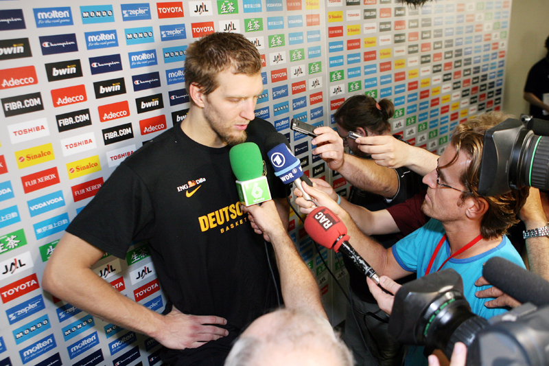 Dirk Nowitzki at 2006 2006 World Cup